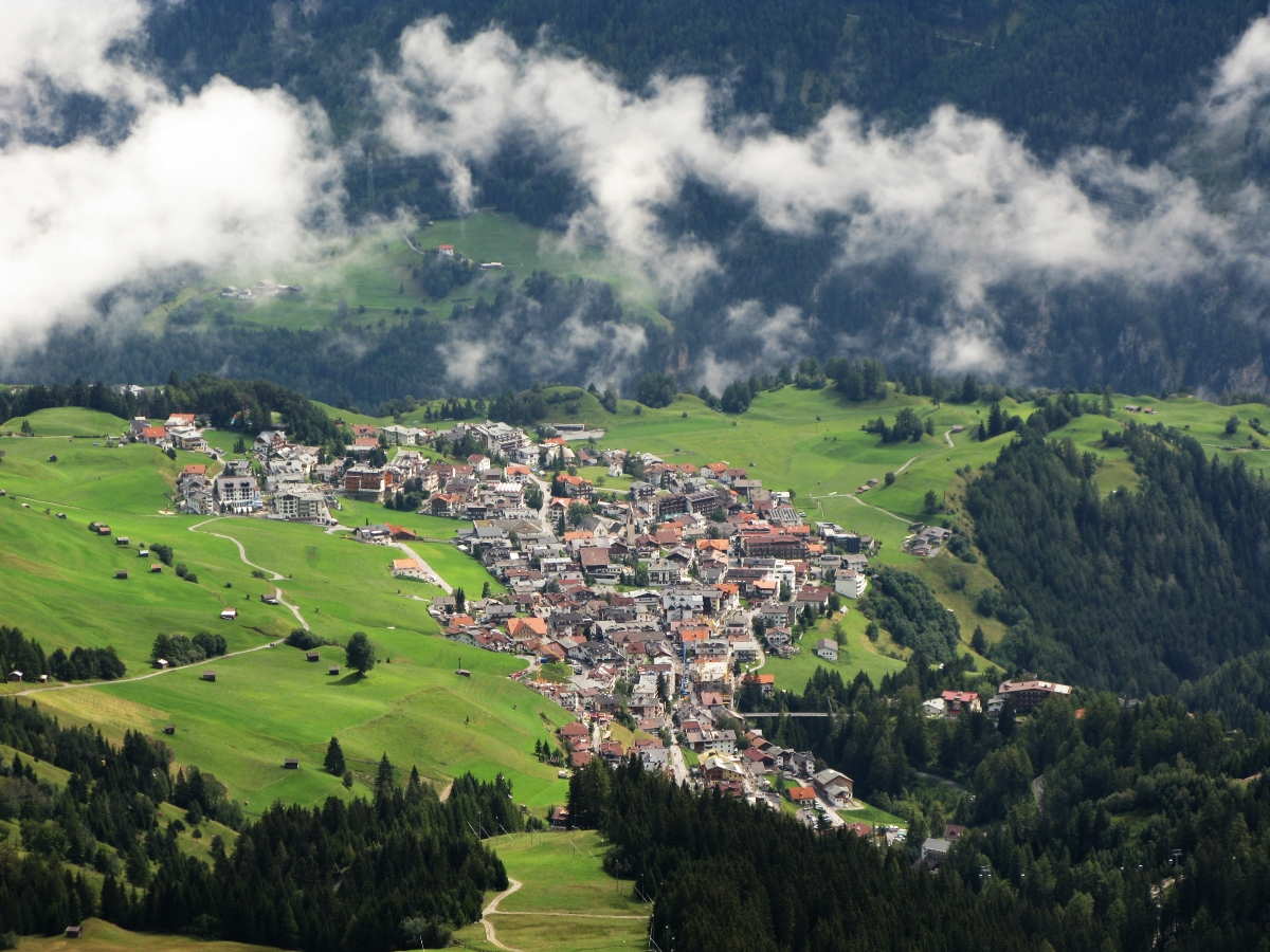 Serfaus seen from the mountains